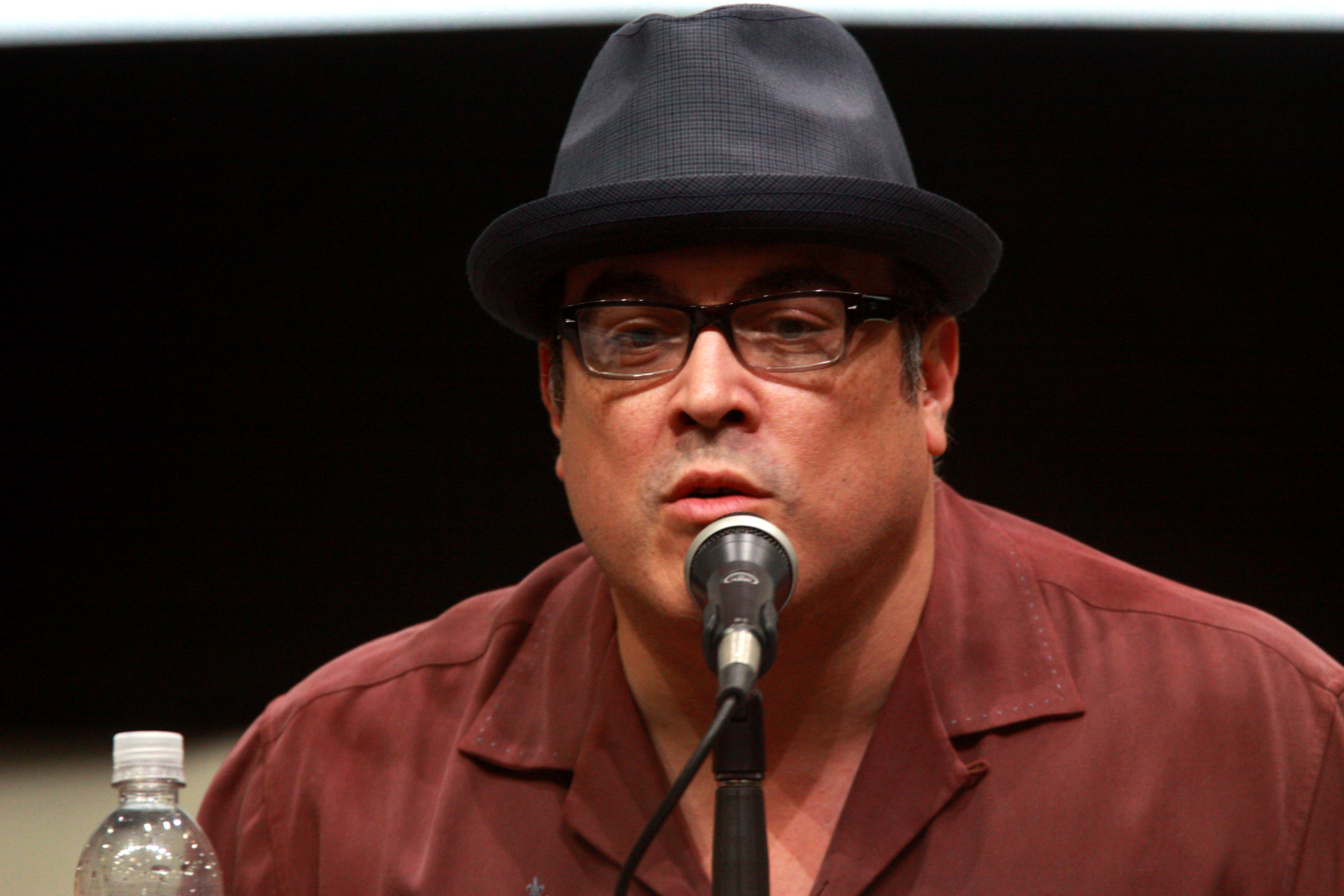 David Zayas speaking at the 2013 San Diego Comic Con International, for "Dexter", at the San Diego Convention Center in San Diego, California.